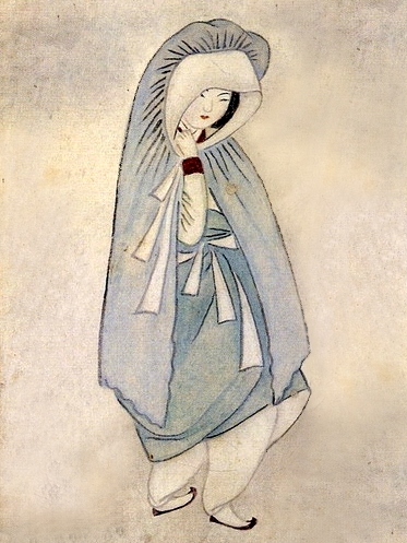 Wolha jeongin, from Hyewon pungsokdo drawn by Shin Yun-bok, or Hyewon. It is stored at Gansong Art Museum, Seoul, South Korea.